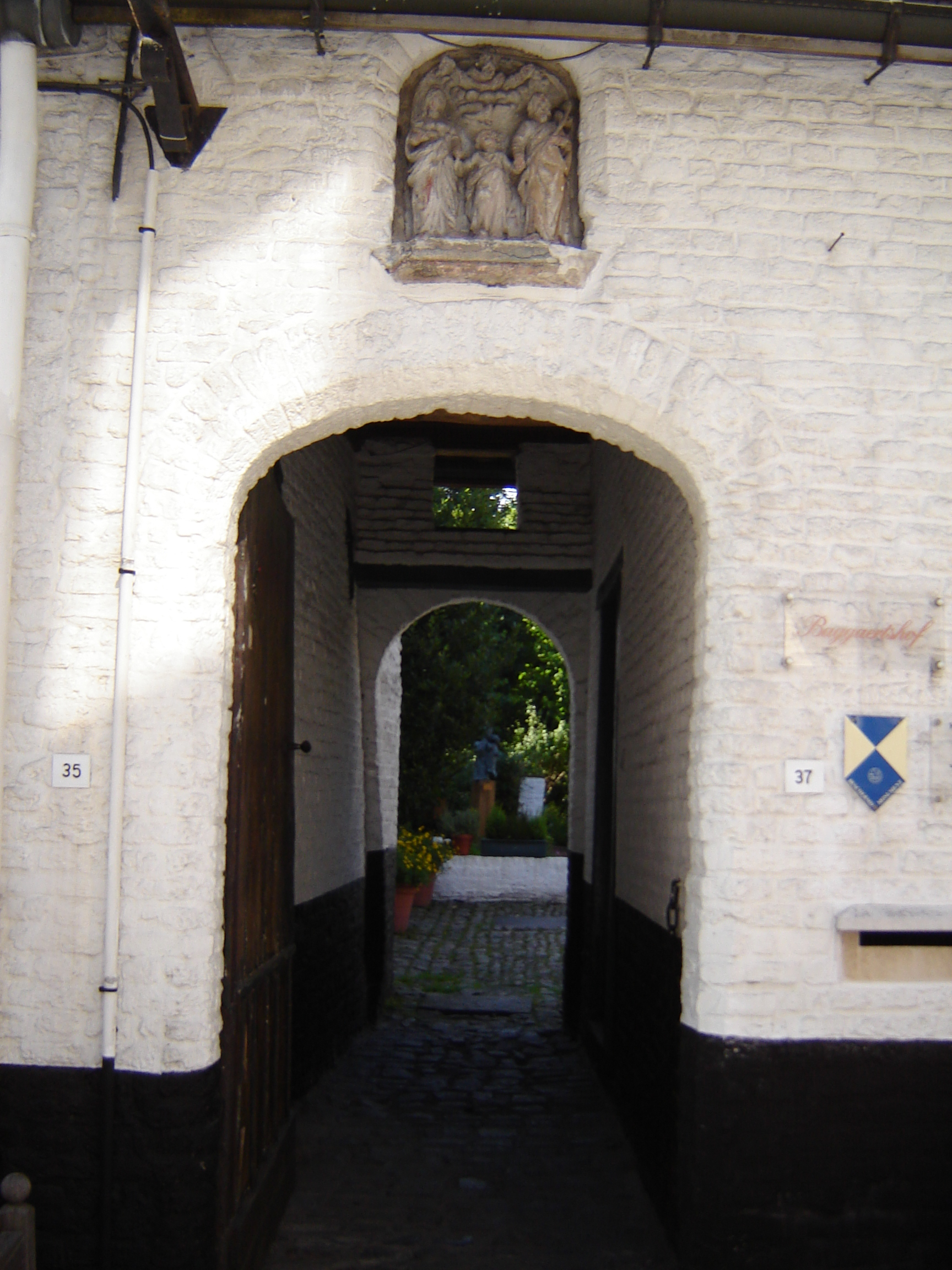 Entrance of the Baggaertshof in Kortrijk, West Flanders, Belgium.